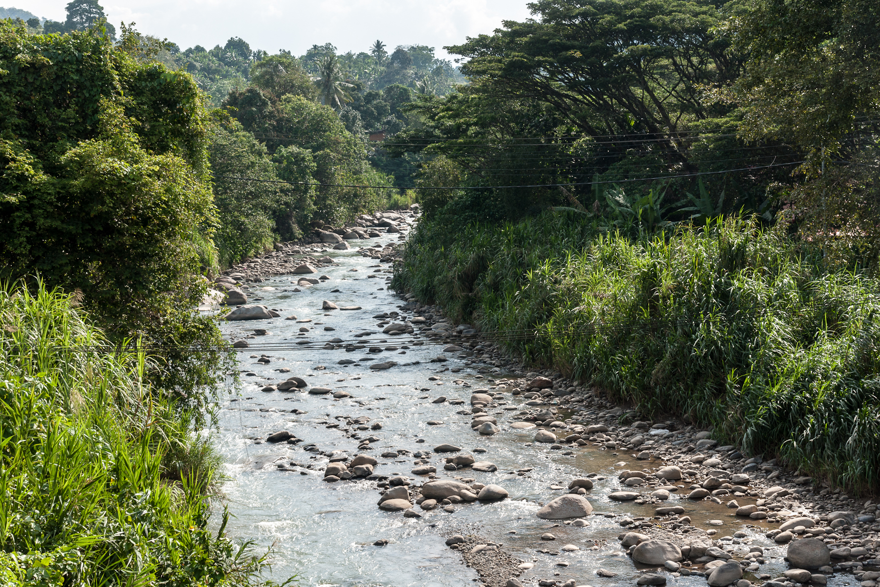 Rivers of Sabah, Malaysia: Sungai Liwagu in Ranau near old tamu